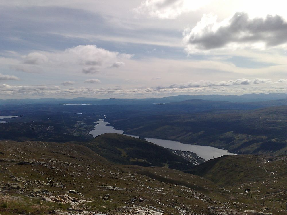 View from Åreskutan